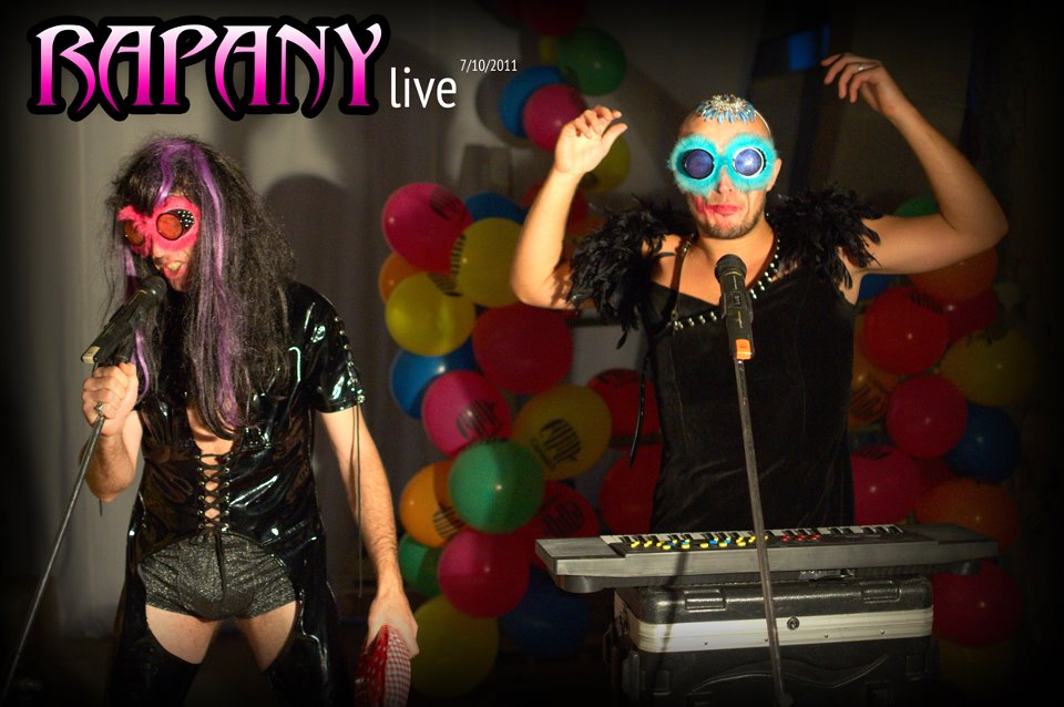 Концерт гурту "Рапани" на обувній фабриці Terra Futura X 2011